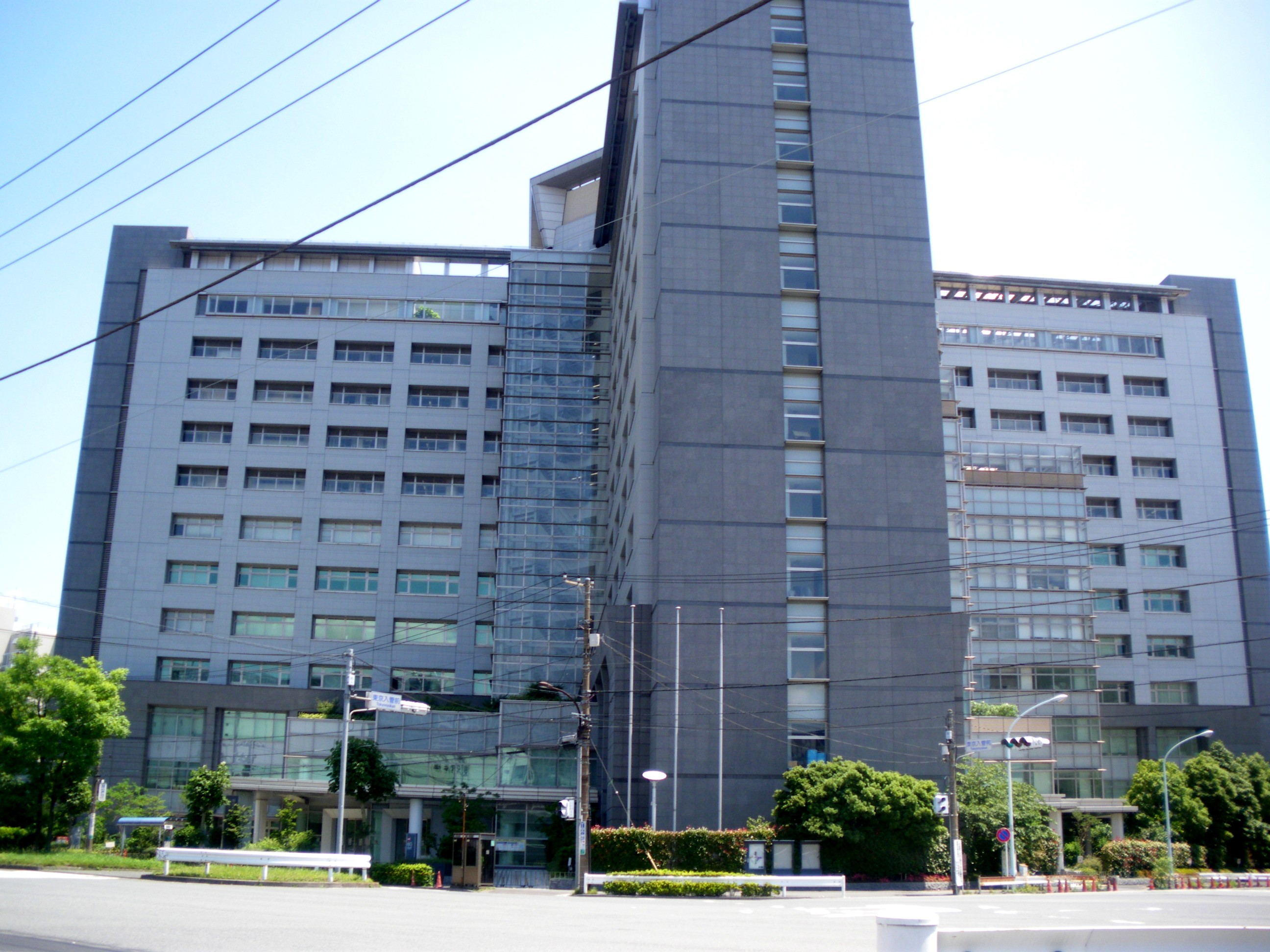 A photo of Tokyo Regional Immigration Bureau, Konan, Minato-ku, Tokyo, Japan.